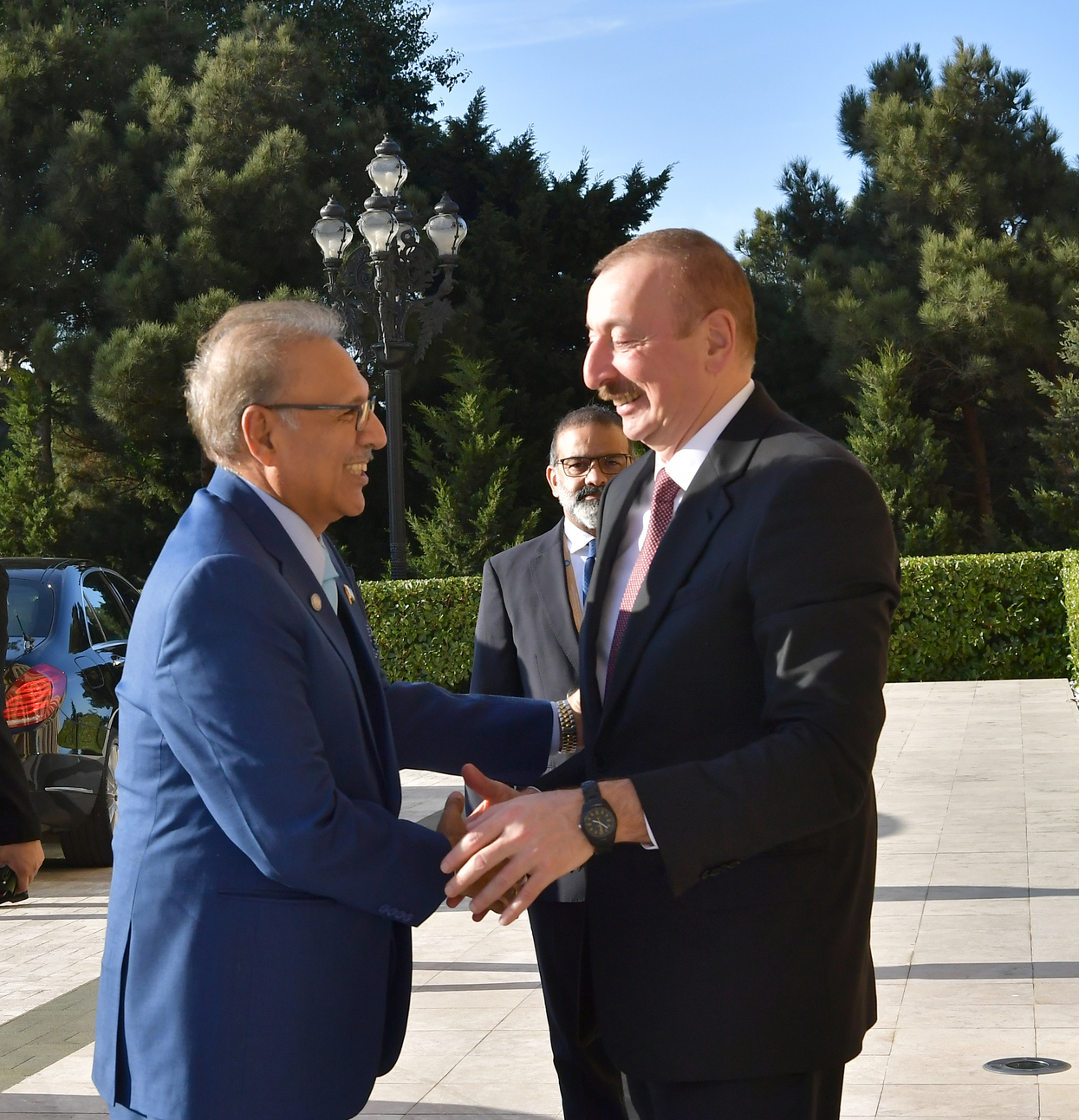 Ilham Aliyev met with President of Paкistan Arif Alvi